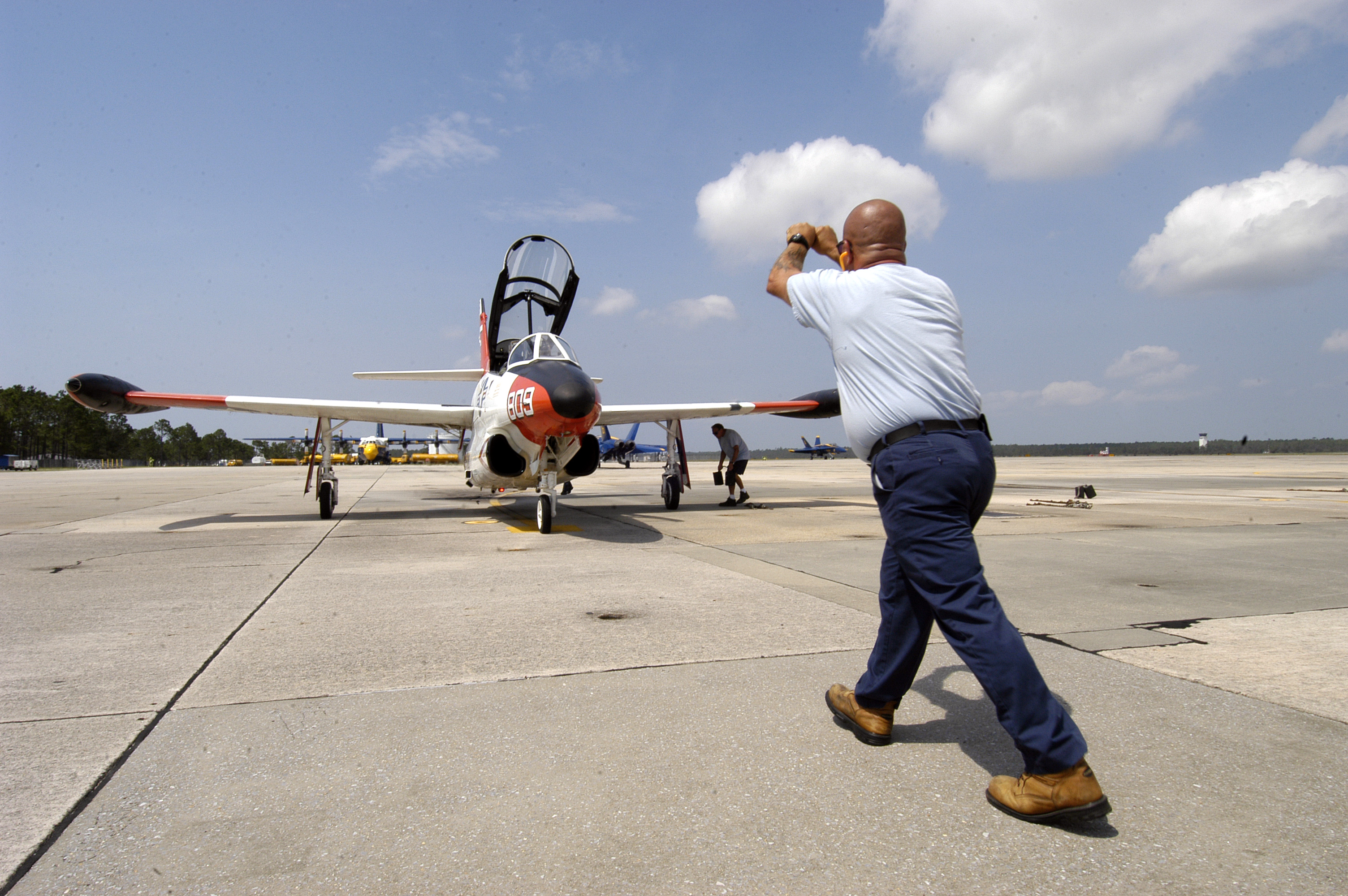 Mike Maciag, a civilian Plane Captain, with L3 Communications, directs the first U.S. Navy T-2C Buckeye trainer jet to return to Sherman Field on board Naval Air Station Pensacola, Fla. The aircraft based at Sherman Field were evacuated in preparation of Hurricane Katrina. A Category 4 hurricane, Katrina came ashore at approximately 7:10 a.m. EST near the Louisiana bayou town of Buras.